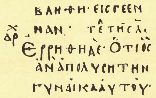 Matthew 5:30-31 (facsimile edited by Scrivener in 1894)